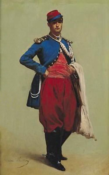 Portrait of Claude Monet in uniform